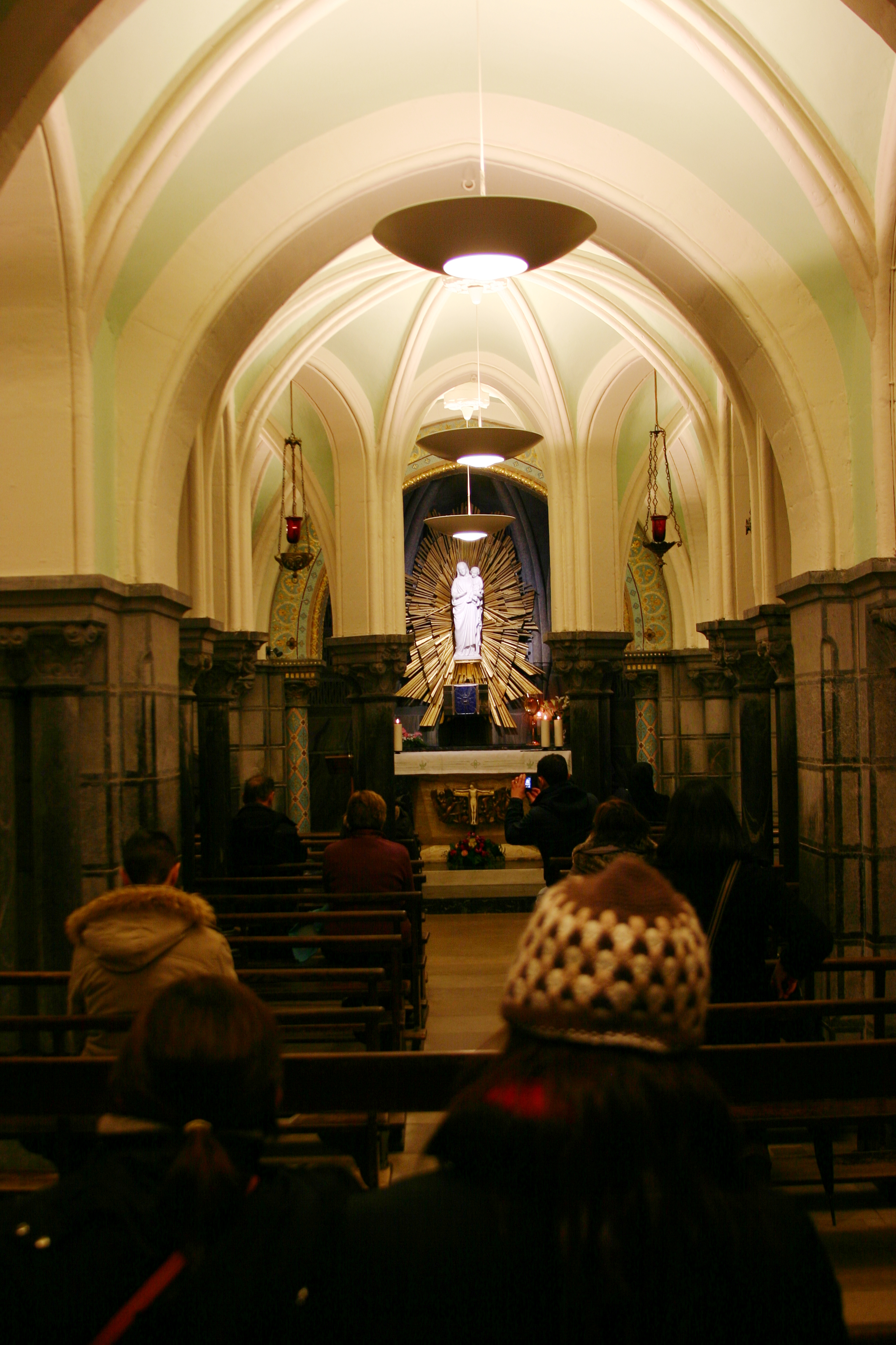 Crypt - Sanctuary of Our Lady of Lourdes